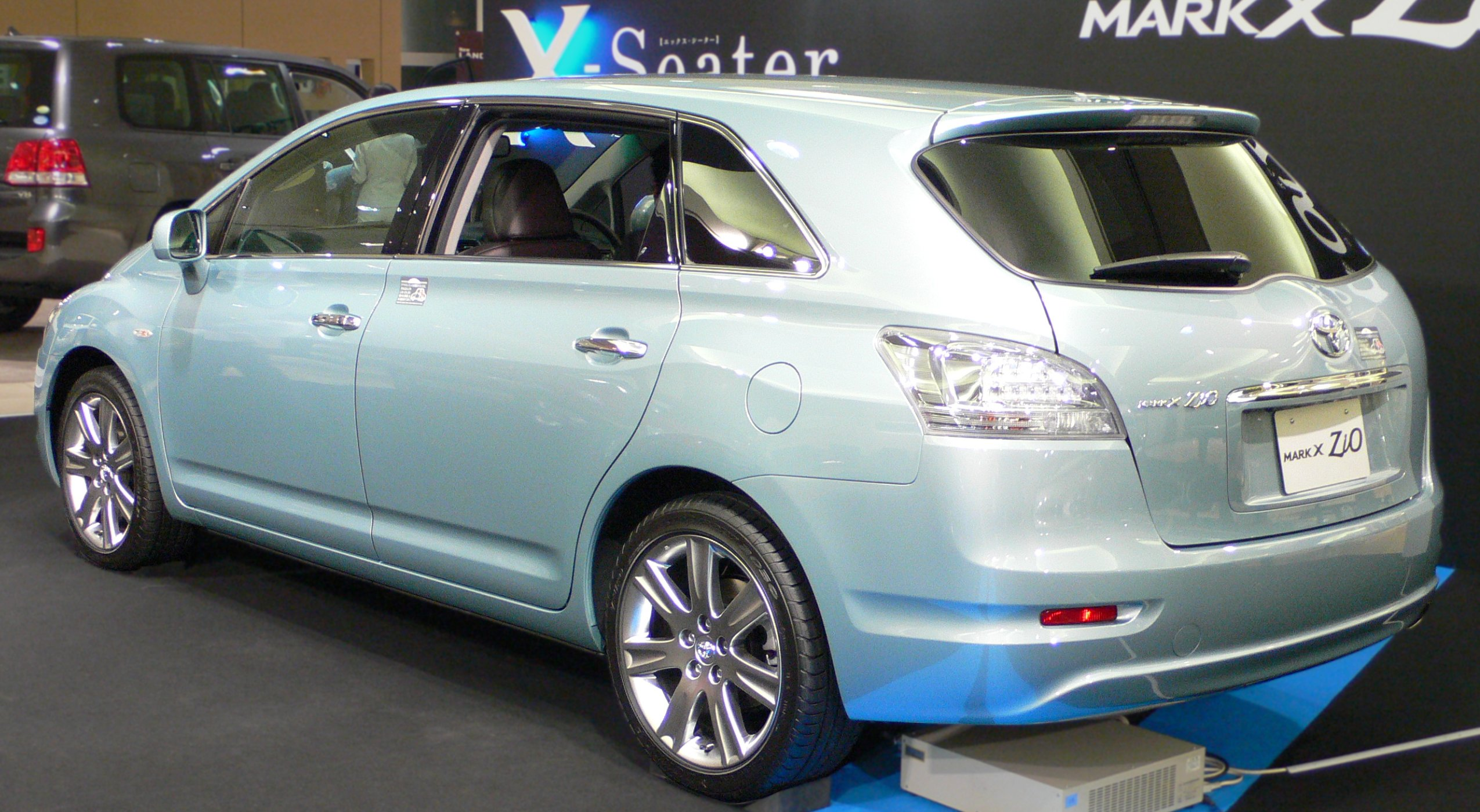 Toyota Mark X Zio photographed at AMLUX